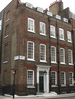 Picture of Buck's Clubhouse, 18 Clifford Street, London